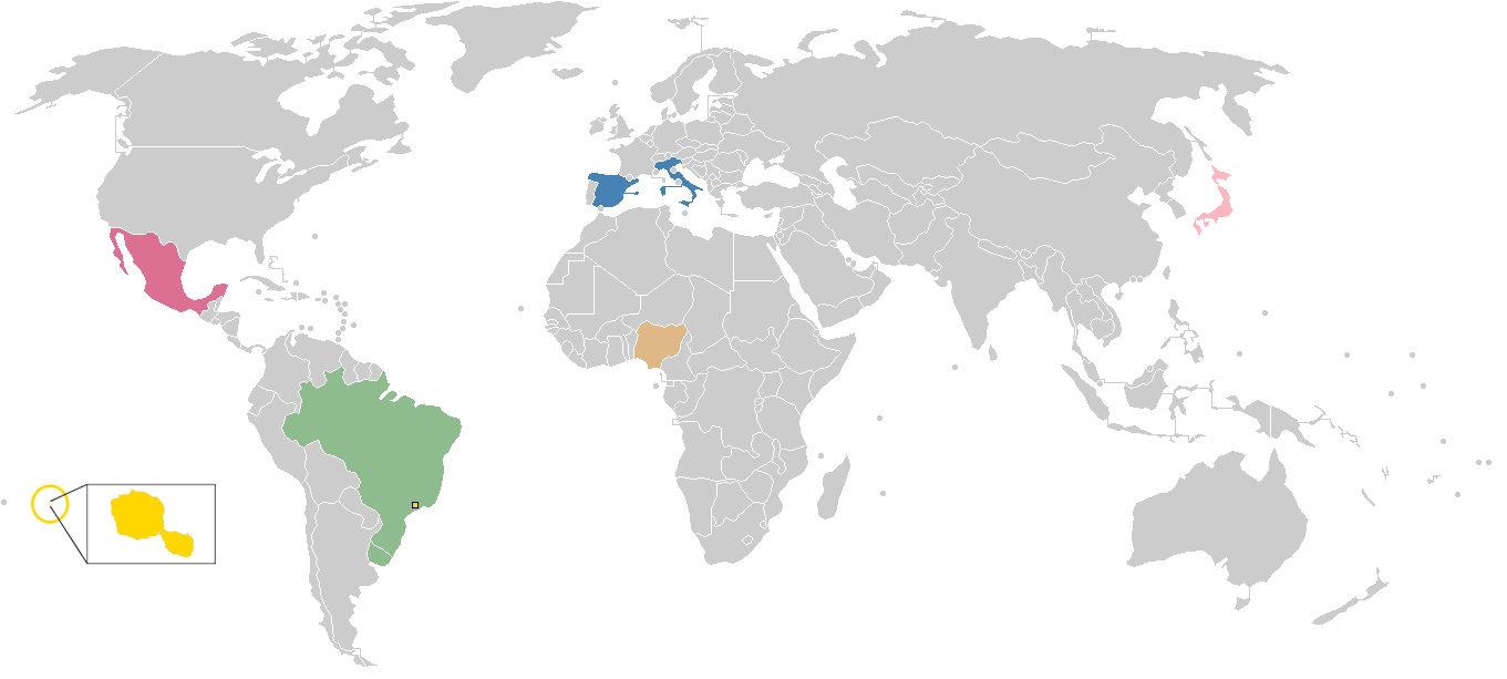 Map of participating countries.